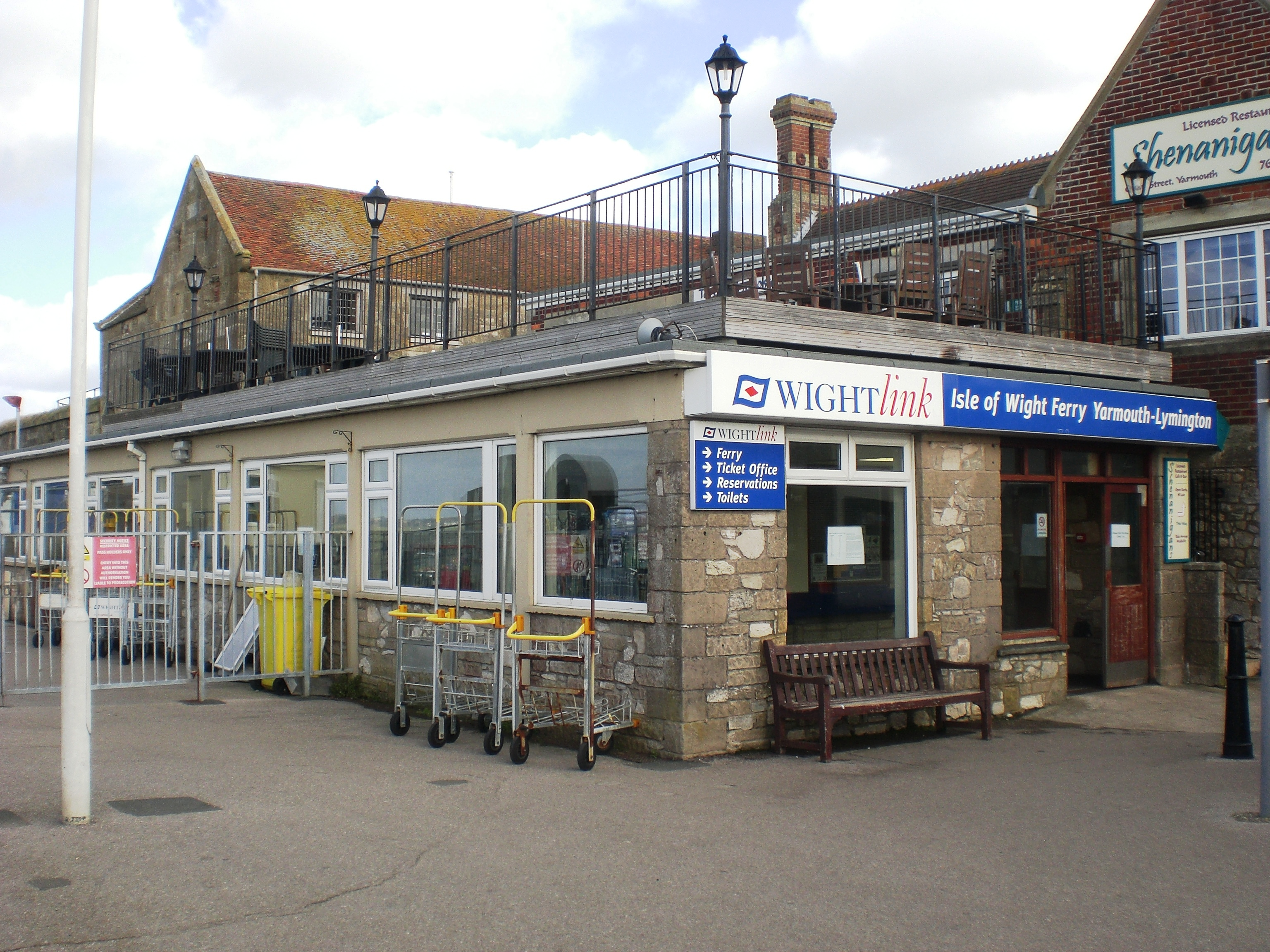 The Wightlink ferry terminal in Yarmouth on the Isle of Wight.